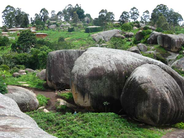 The sacred cave of Baham, West, Cameroon, is a field of granite boulders with hidden places